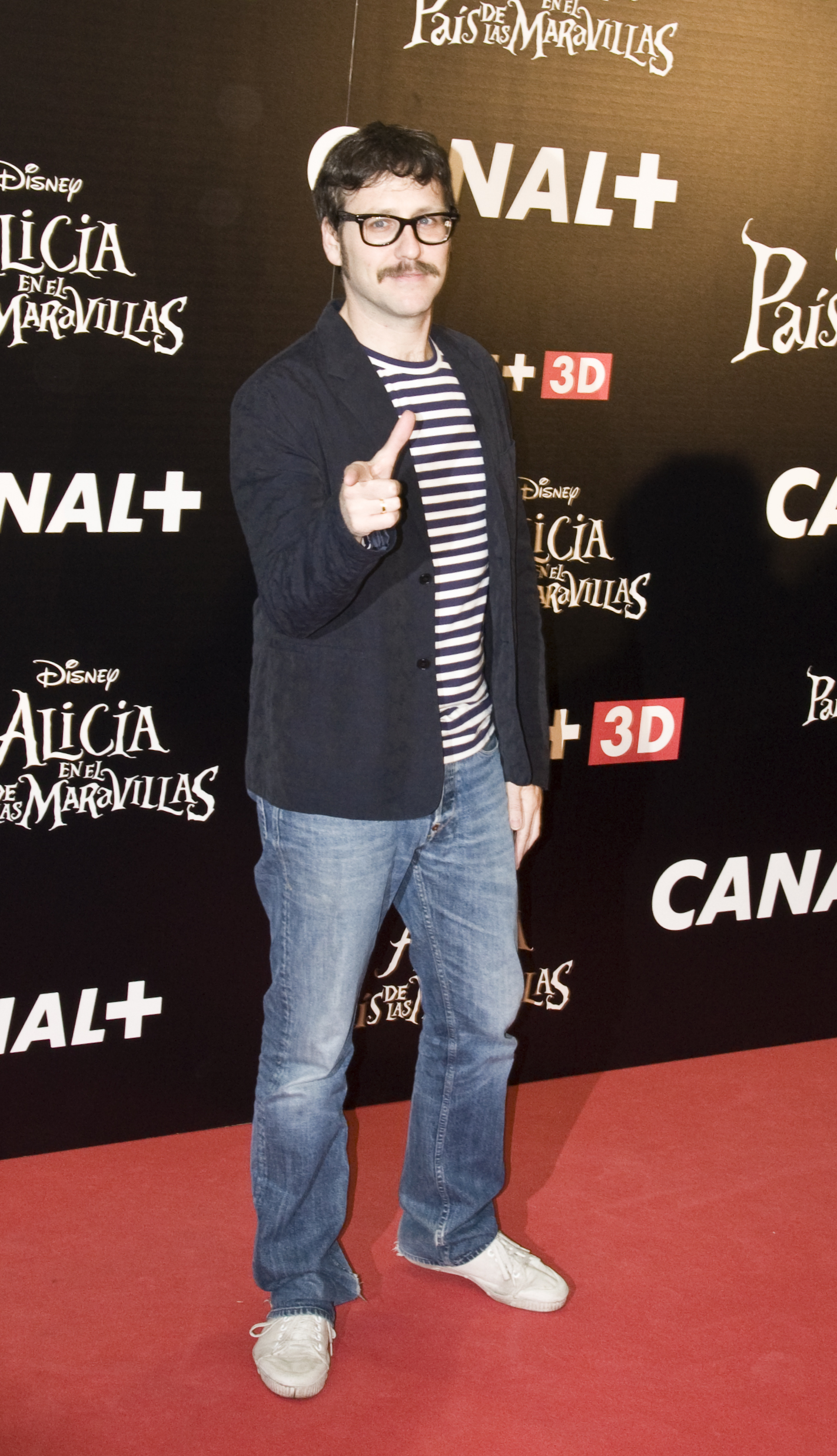 Joaquín Reyes Spanish actor at the photocall of Alice in Wonderland in 2010.